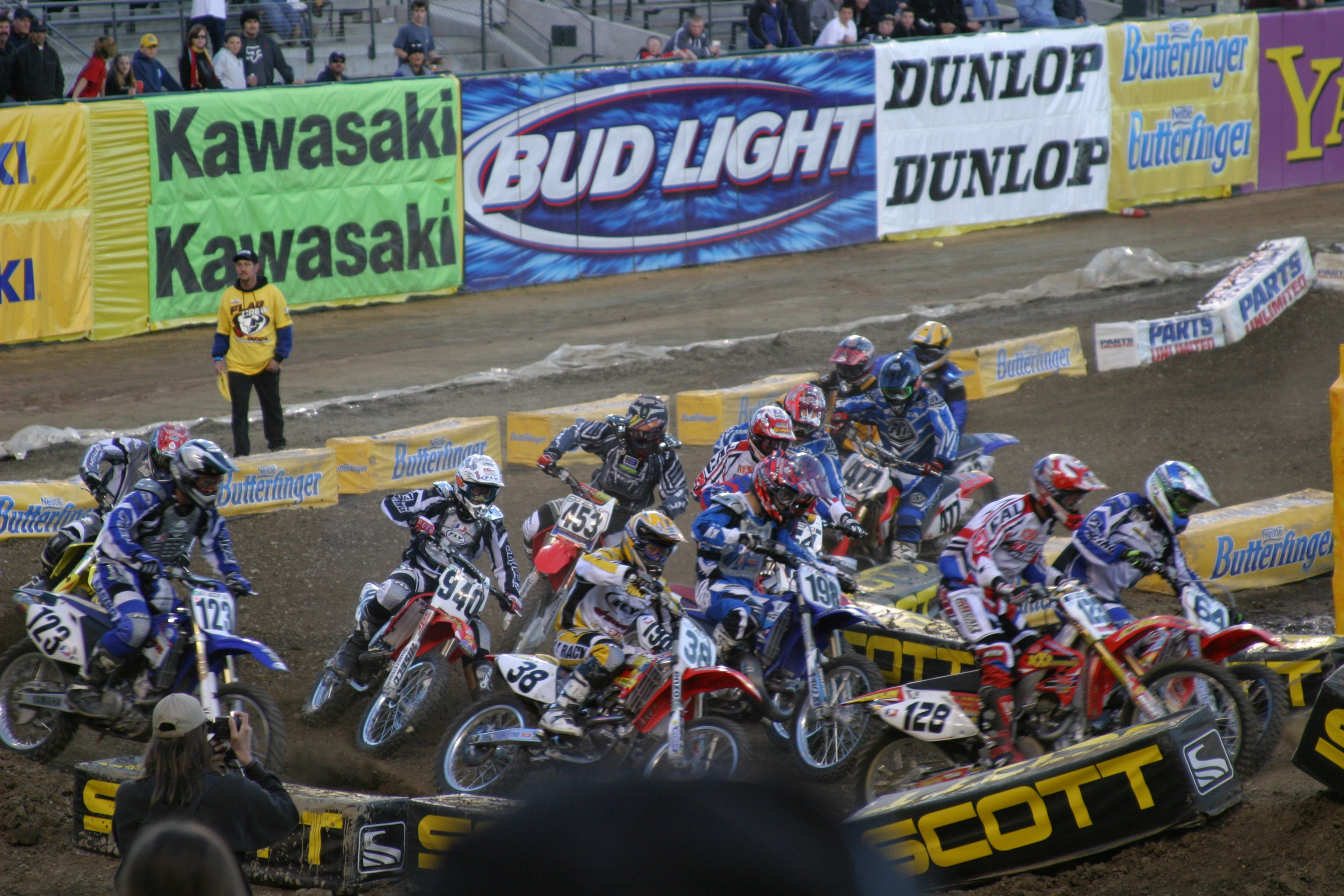 These photos were taken by Joe Hackman of the 2004 Supercross in San Francisco, CA.